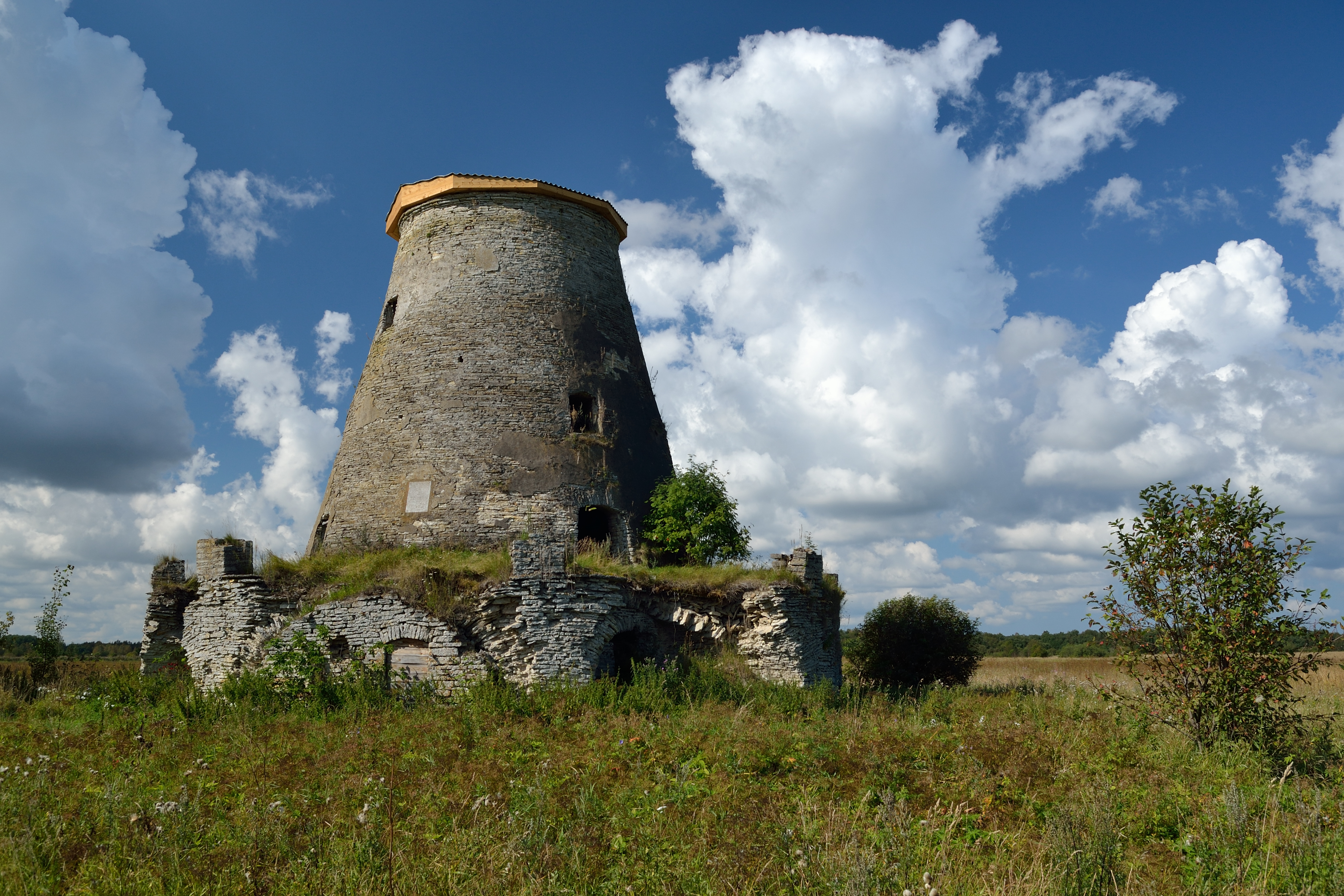 Andja manor windmill (built in 1804) ruins